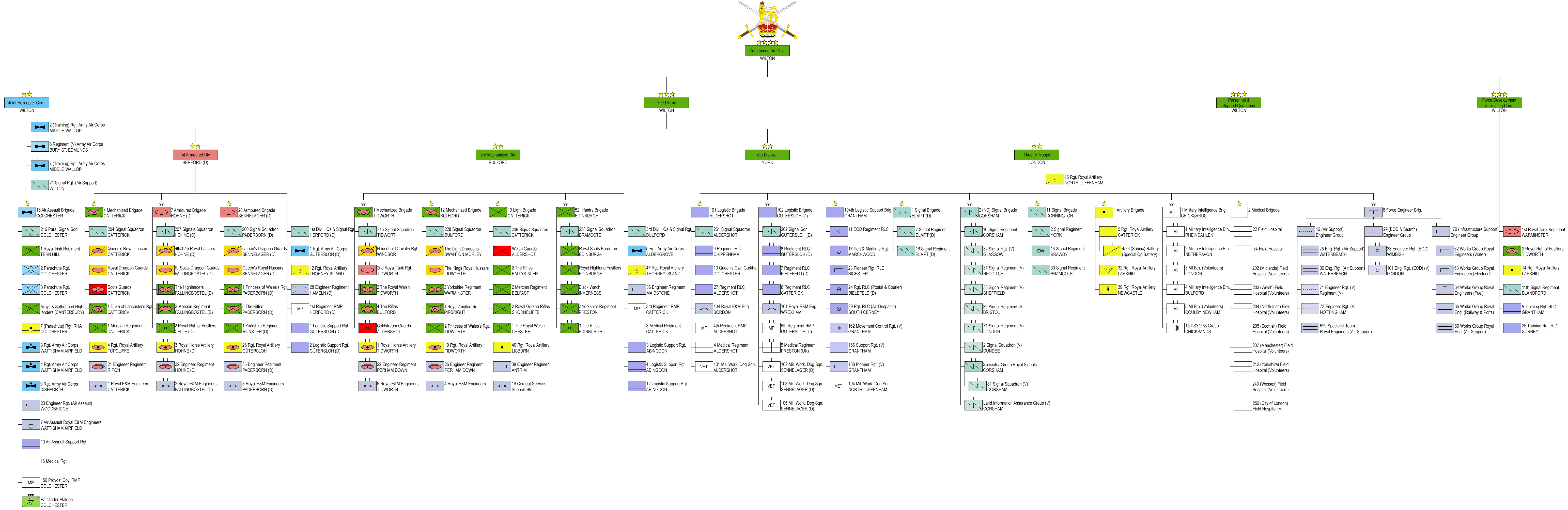 Full Structure of the United Kingdom Army 2010